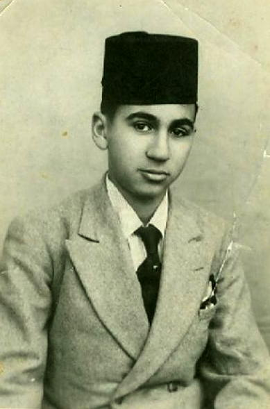 Egyptian Minister of War Mohammed Ahmed Sadek in childhood